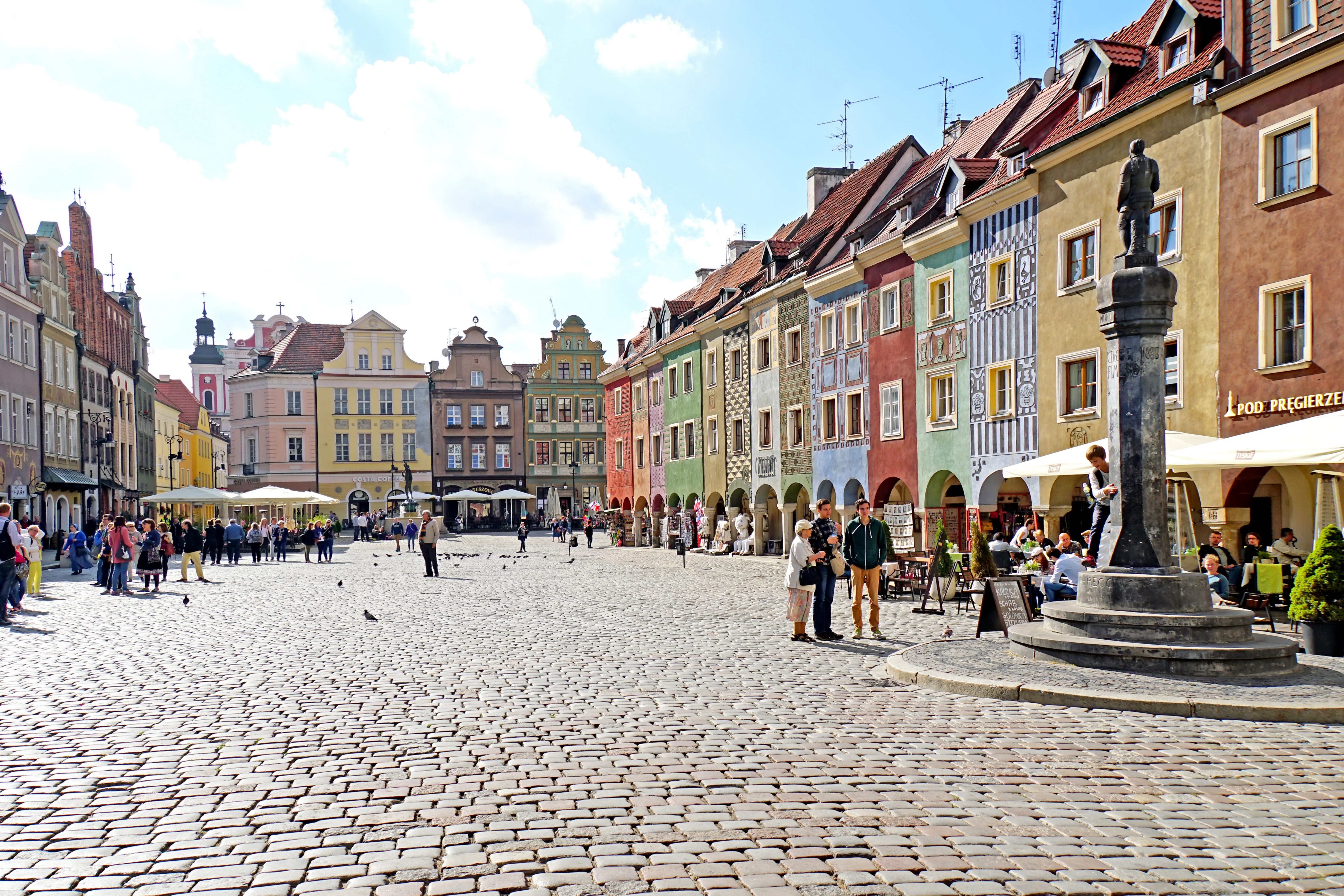 PLEASE, NO invitations or self promotions, THEY WILL BE DELETED. My photos are FREE to use, just give me credit and it would be nice if you let me know, thanks. Part of Old Market Square with the Whipping Post. In front of the Town Hall is where criminals would get a public floggings and more serious crimes were dealt with by an executioner, a statue of whom stands on top of the whipping post.